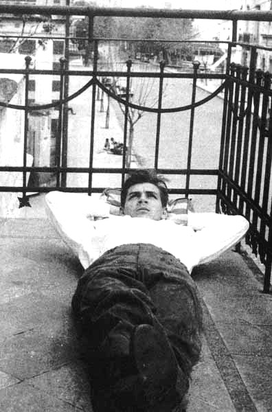 A 20 year old Ernesto Guevara lying contemplatively on the balcony of his family's new home on Calle Araoz in Buenos Aires, Argentina.